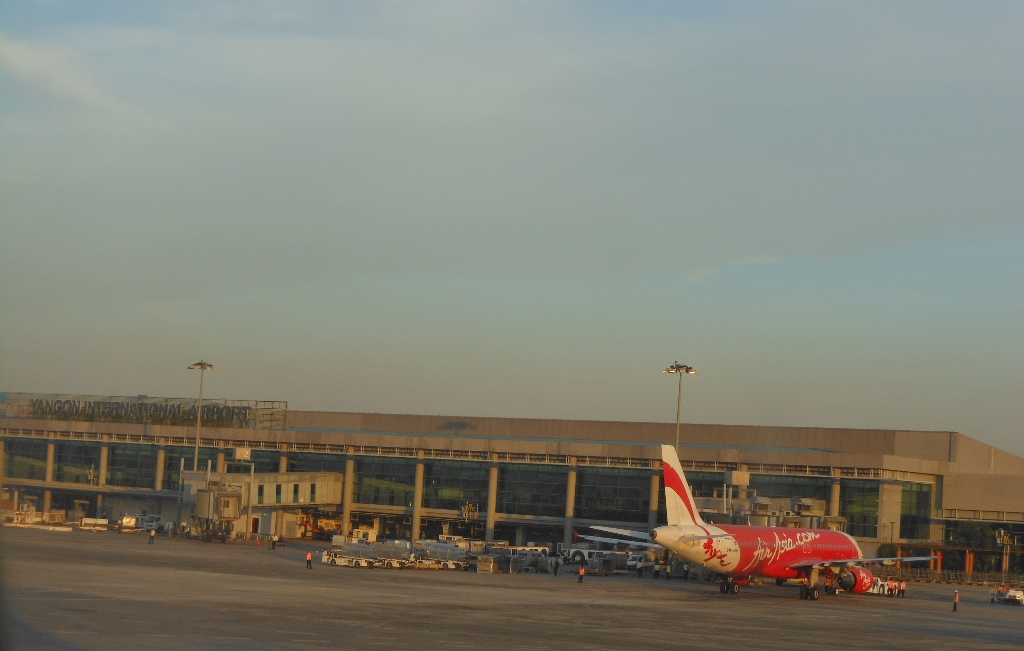 Yangon International Airport